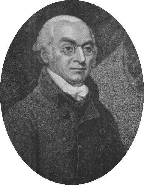 James Ware (1756-1815) from an engraving by Thomas Cook after a painting by Mather Brown